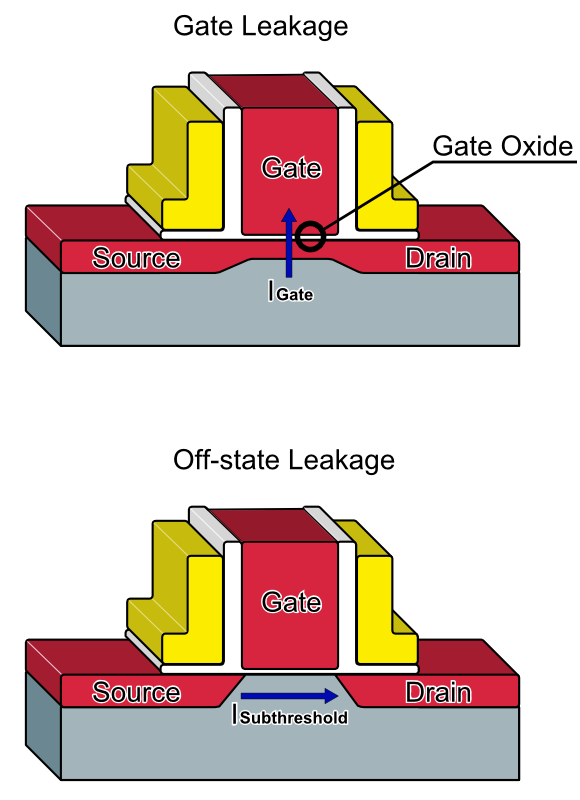 Gate leakage and Off-state leakage